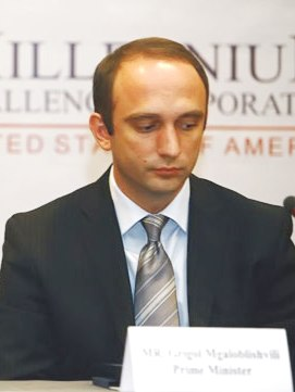 On Nov. 20, 2008, the Millennium Challenge Corporation and Georgia signed an amendment to the $295 million compact with Georgia that grants up to an additional $100 million in U.S. Government development assistance. The additional funding will complement activities currently funded by MCC, including the rehabilitation of Georgia’s road network, infrastructure development and energy activities.